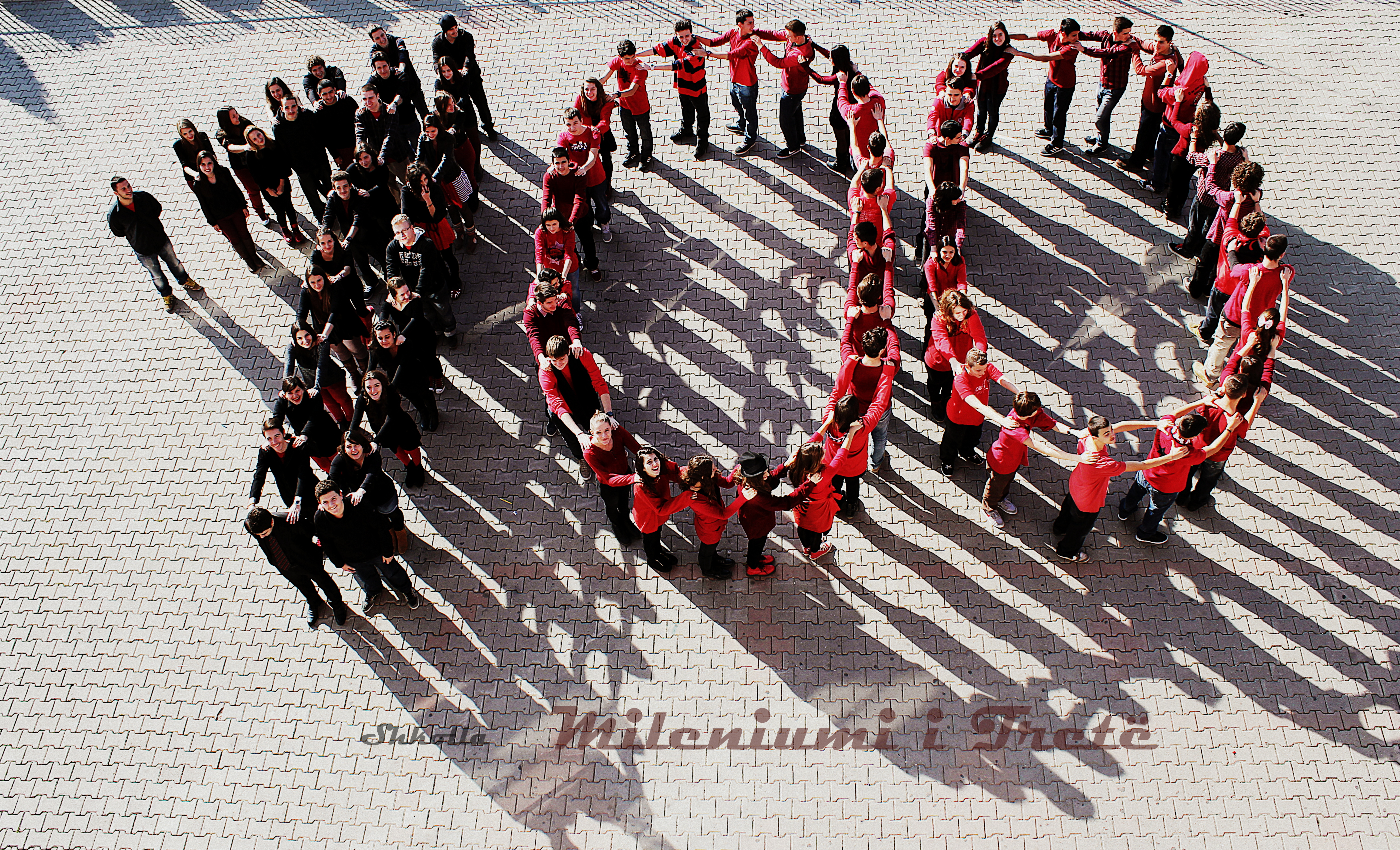 Artistic Picture